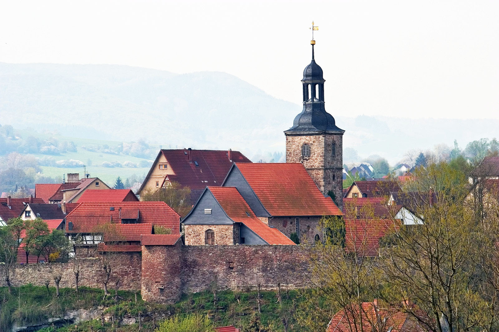 Fortified church Walldorf, Northeast View